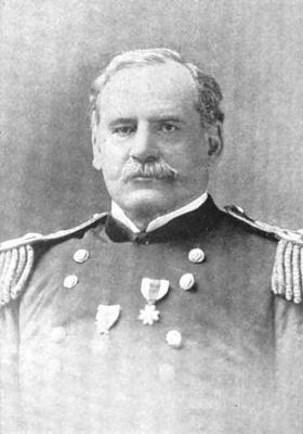 Brigadier General Daniel Webster Flagler during the Spanish-American War.